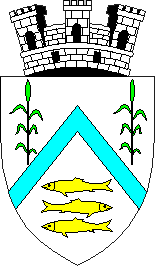 Interwar coat of arms of Vylkove, Ismail County, Kingdom of Romania.